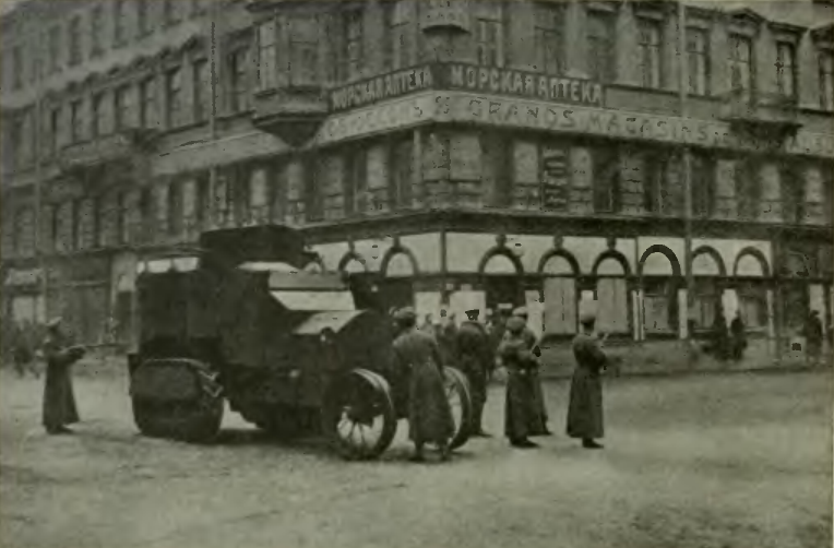 Bolshevik troops with an armoured car in the streets of Petrograd, autumn 1917.